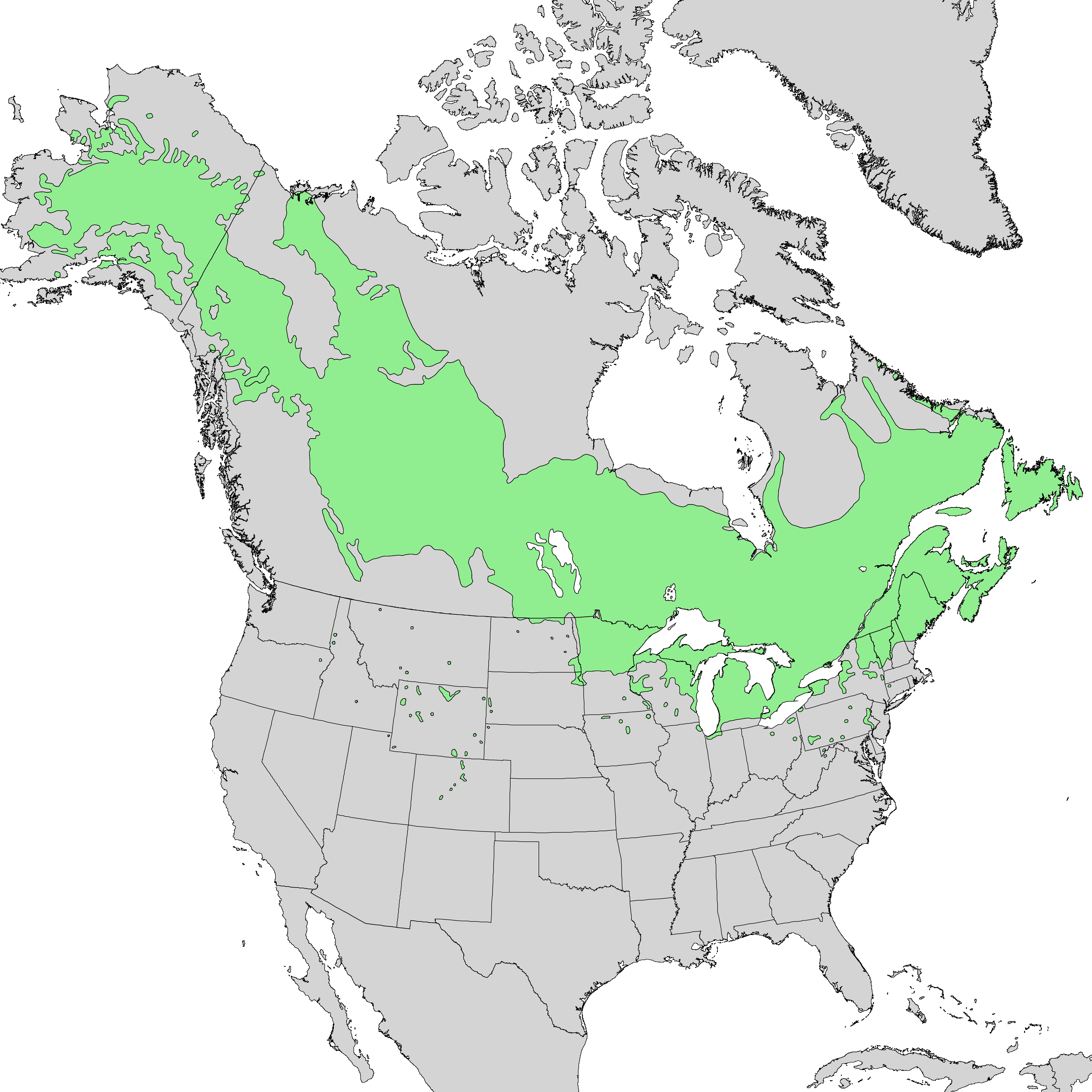 Populus balsamifera (balsam poplar) North American distribution map